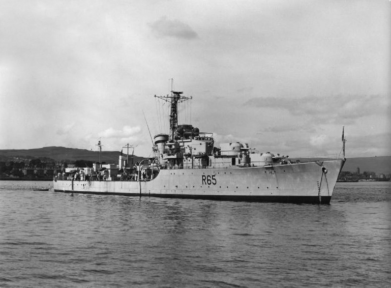 British destroyer HMS ST JAMES at anchor in the Clyde.